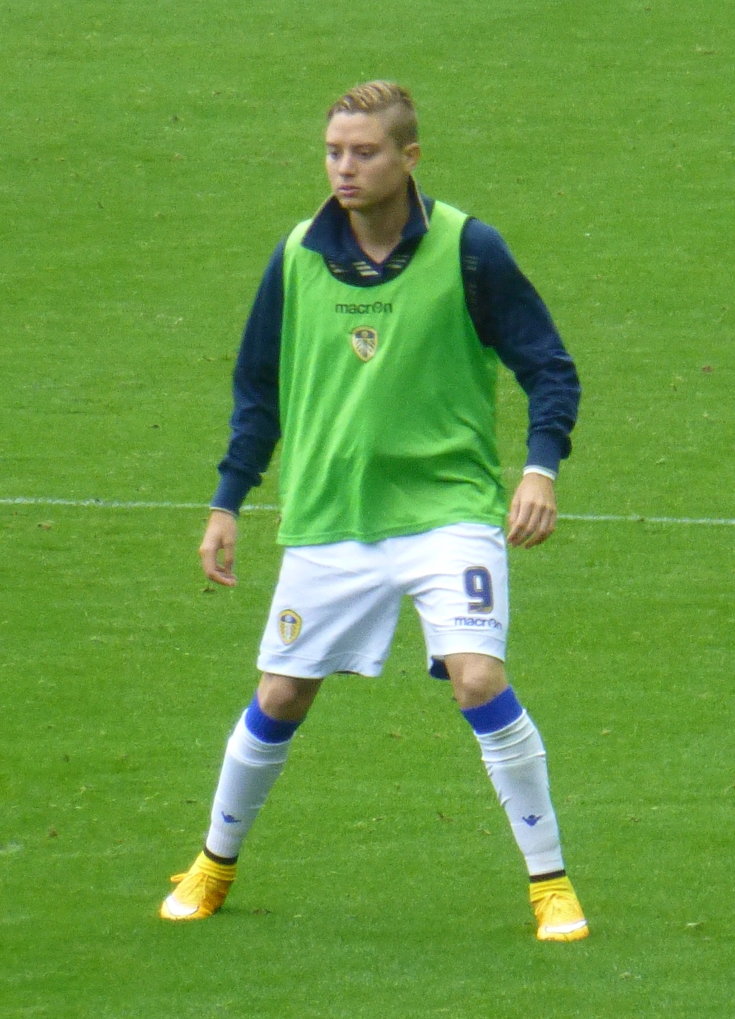 Leeds United vs Huddersfield Town at Elland Road, Leeds 20-9-2014